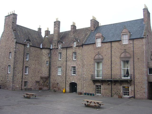 Bruntsfield House, Whitehouse Loan 16thC house of the Lauder family who were granted the estate by Robert II in a charter of 1381. The extension on the right was built by a subsequent owner, John Fairlie of Braid. In 1695, the house became the possession of George Warrender, merchant, Lord Provost of Edinburgh from 1713 and M.P. for the city during the reign of George I. In the 1880s, the surrounding area was feued and covered with Victorian tenements, though the House continued as a Warrender residence until 1901. When it was threatened with demolition in the 1930s, the family signed it over to the Edinburgh Corporation on condition that it be used only for a public or municipal purpose. In the 1960s, it was carefully restored to become the administrative offices of the new James Gillespie's School.